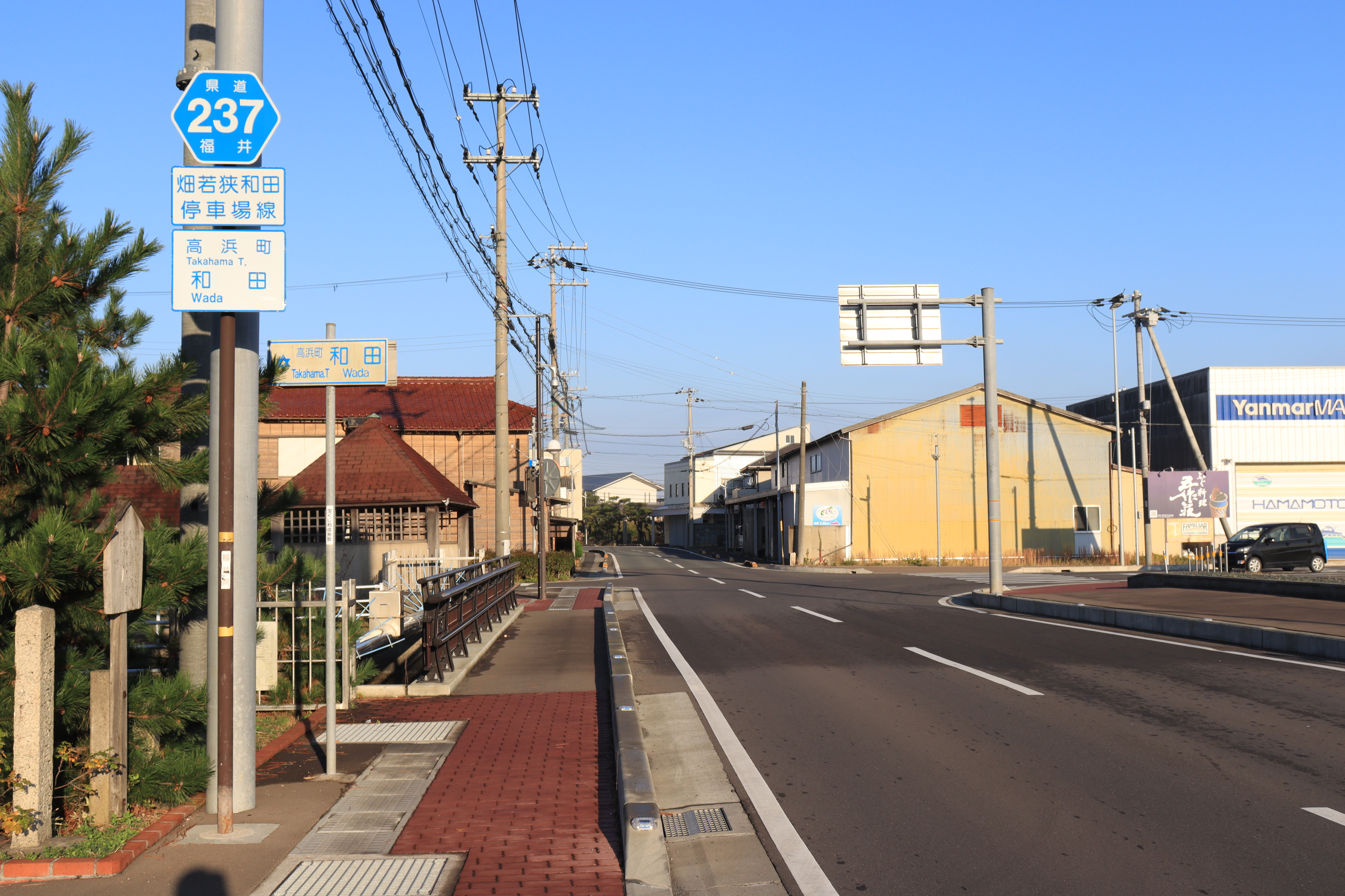 Fukui Prefectural Road Route 237 in Wada, Takahama, Fukui Prefecture, Japan.